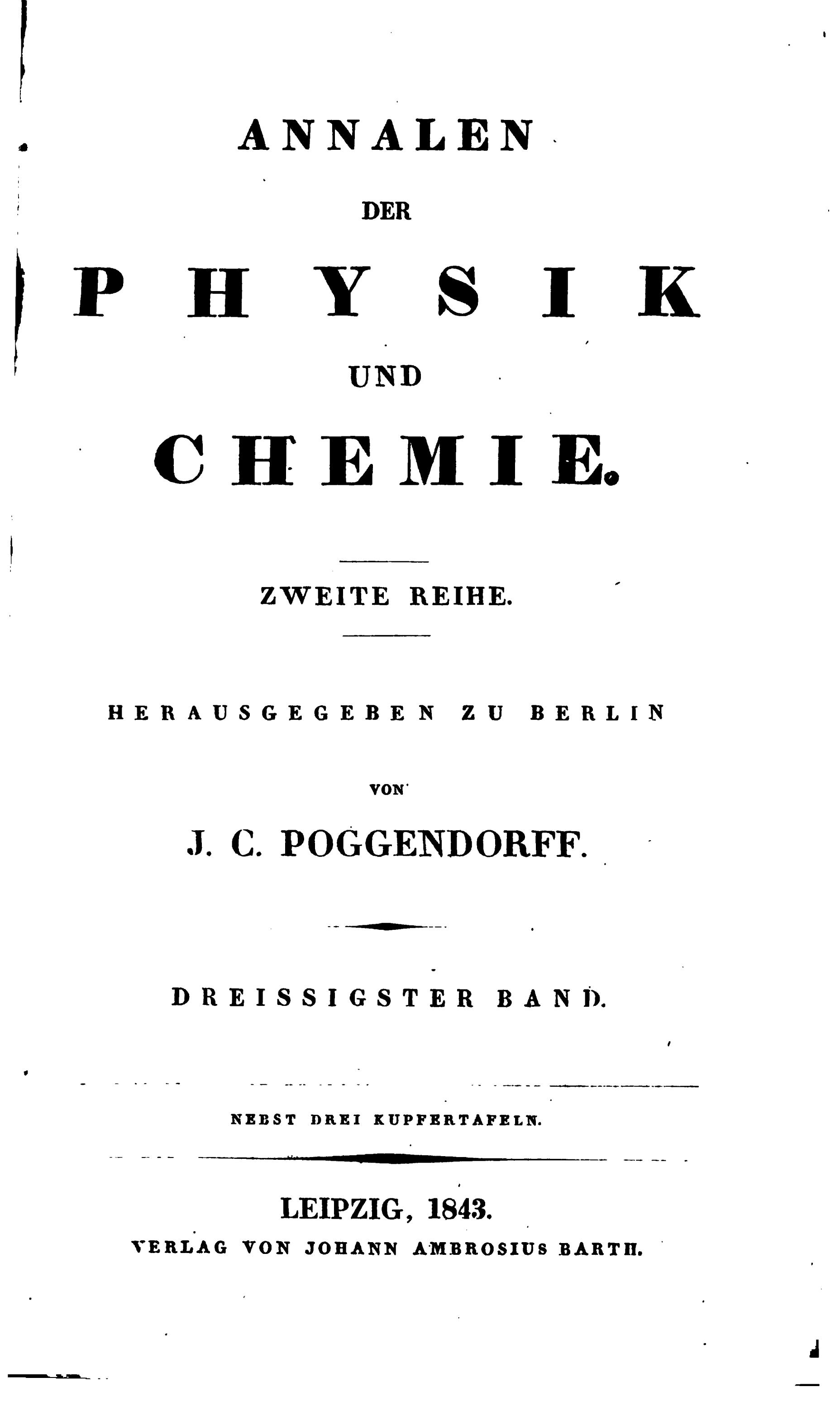 Scan of Book "Annalen der Physik und Chemie"